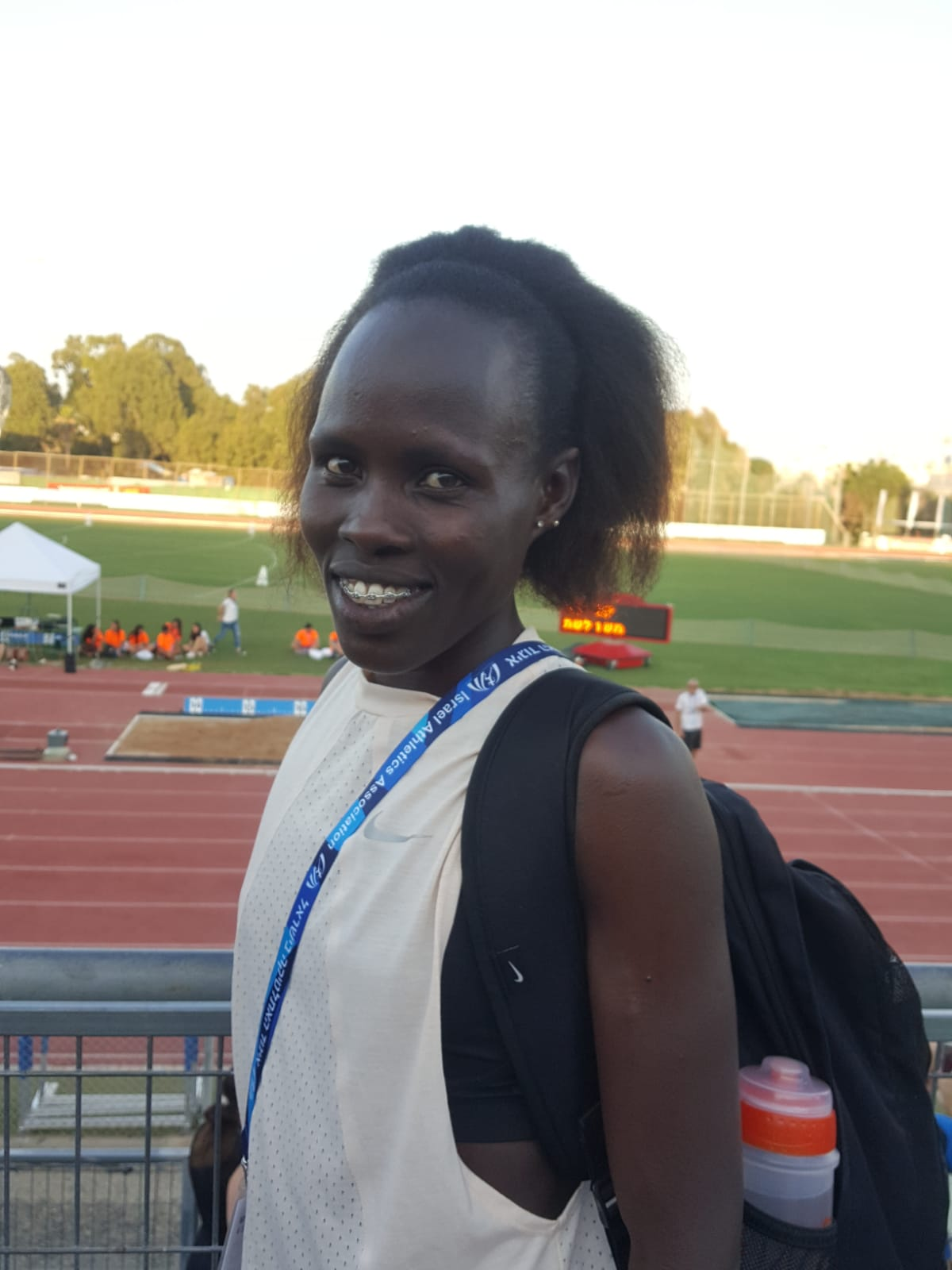 Lonah Chemtai, Israel athletics championship, July 2018